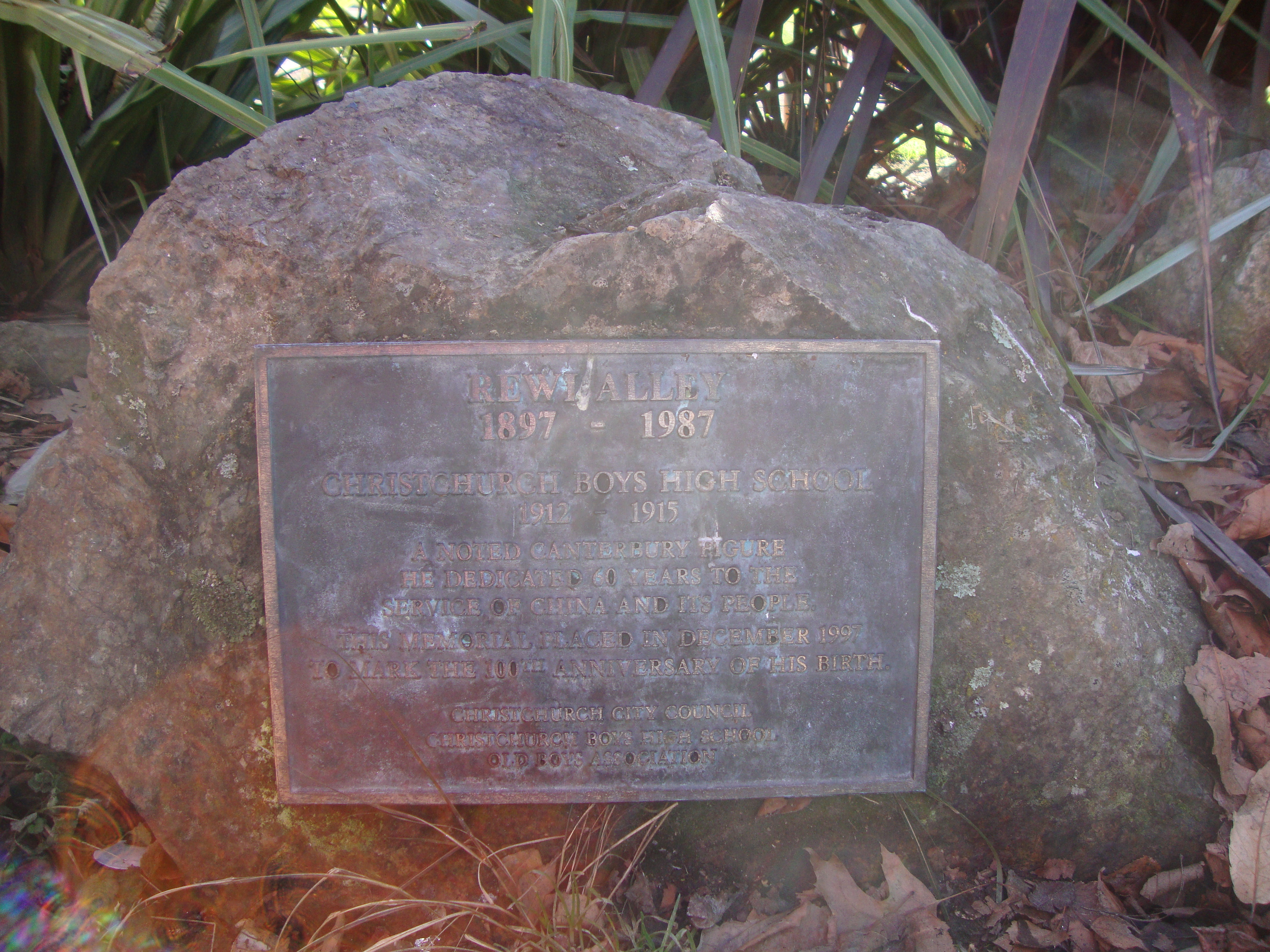 Christchurch Boys' High School in July 2012. Memorial plaque for Rewi Alley, commemorating his 100th birthday.